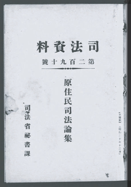 The inside cover of "Shiho Shiryo (司法資料)", vol. 290, one of in a series of report on foreign law, published by Imperial Japan Ministry of Justice.